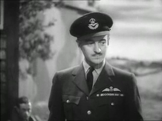 David Niven in The First of the Few, film by Leslie Howard (1942)